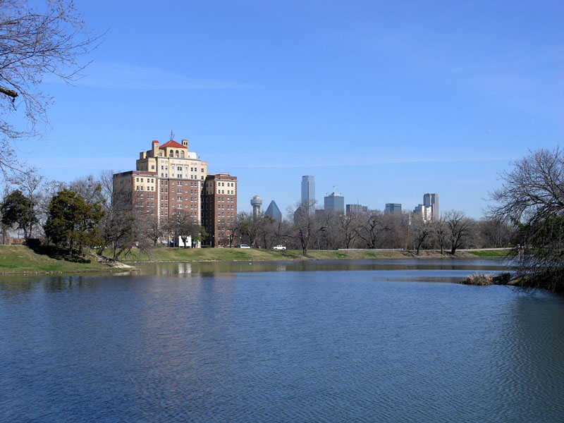 The downtown skyline seen from Lake Cliff in Oak Cliff, Dallas, Texas (USA)